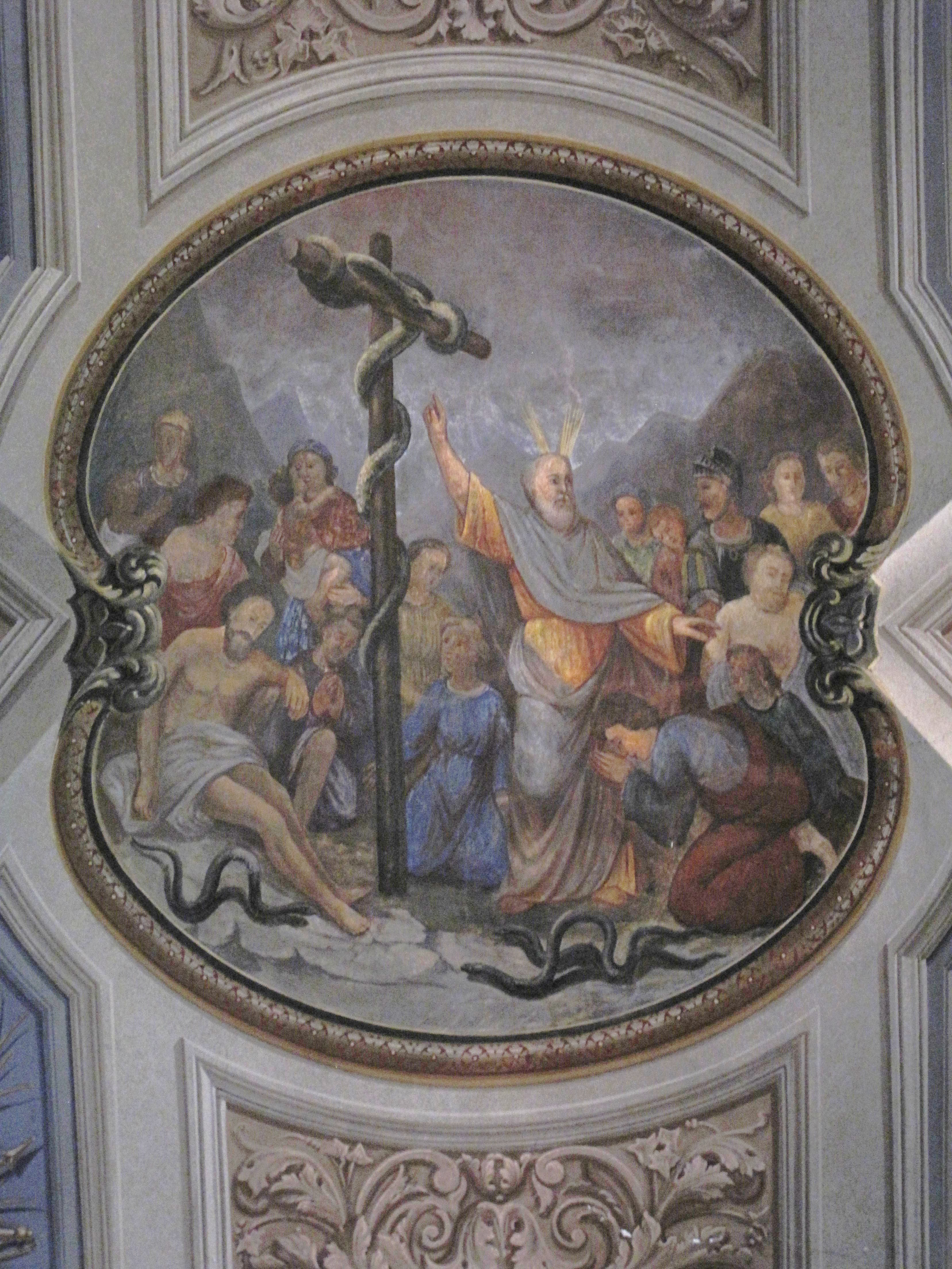 Ceiling of the Saint-Nicholas church in Perinaldo (Liguria, Italy).